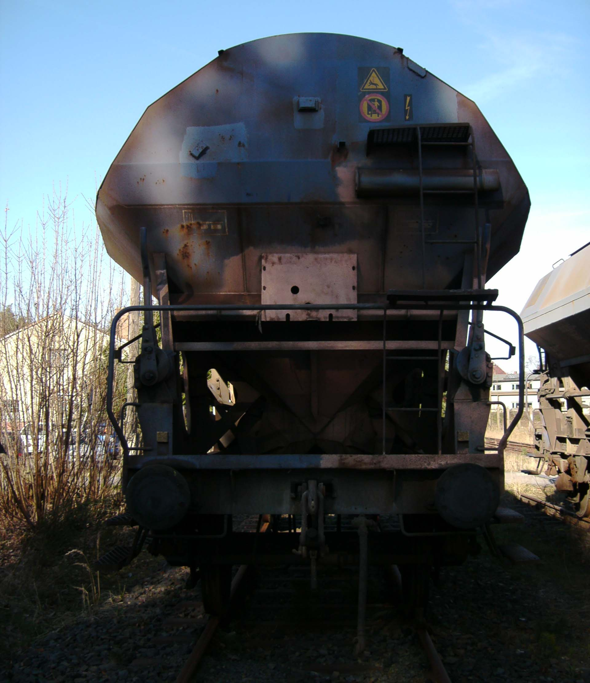 End view of a Class Fccs self-discharging hopper of the ITL railway